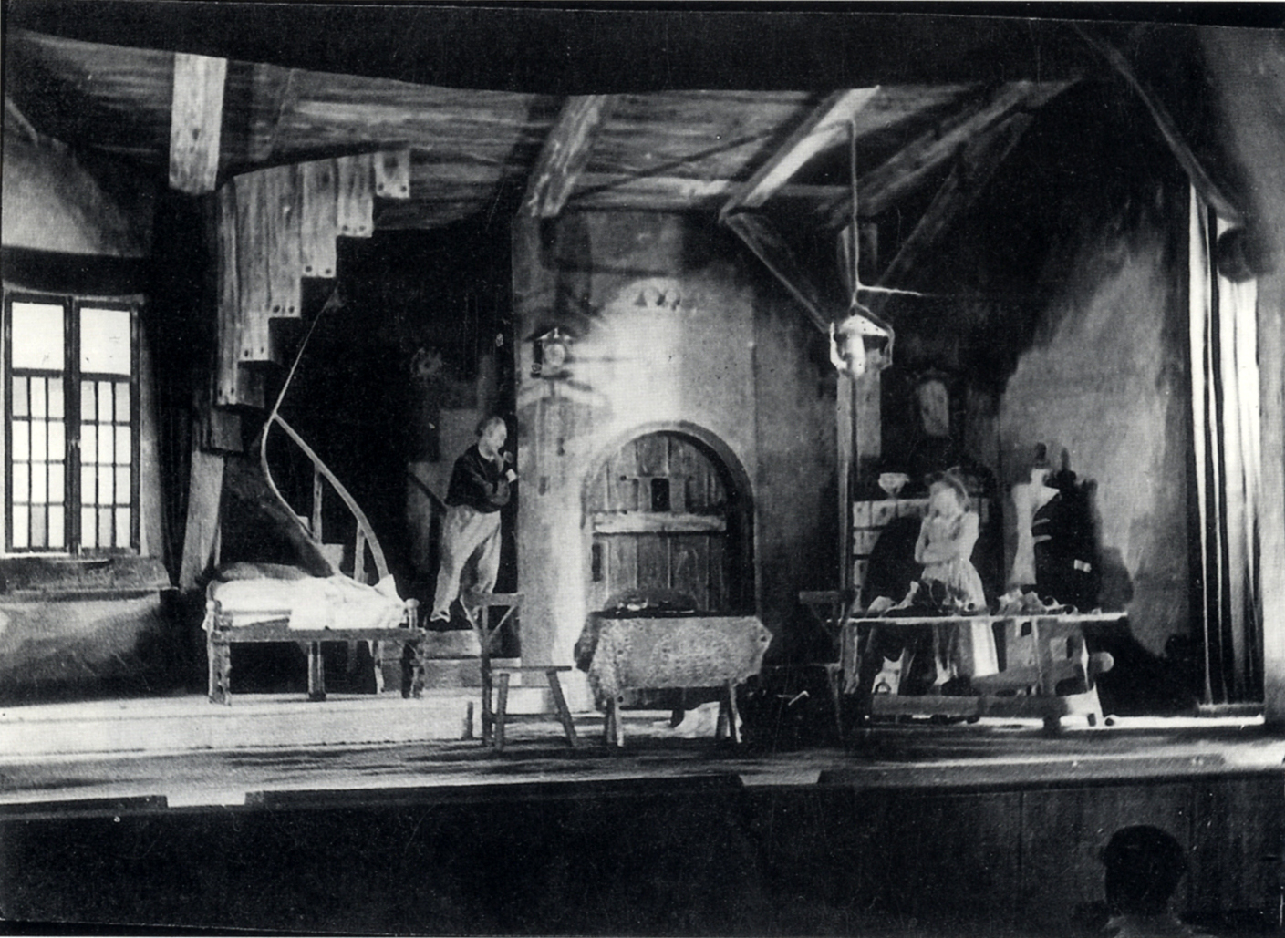 "Maase behayat" (A story about a tailor), 1947, the Ohel. set disighn by Arie Aroch.